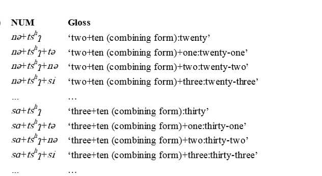 ersu compound numbers 20-39